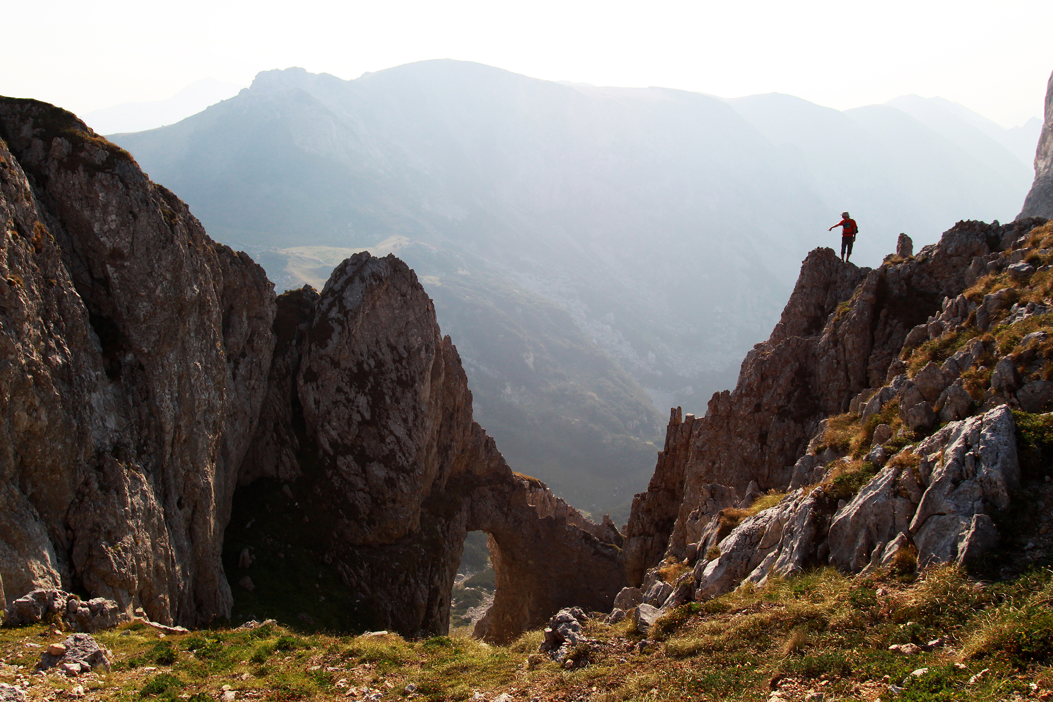 A hikers stands on the cliff of Lugu i Shkodres in Rugova gorge